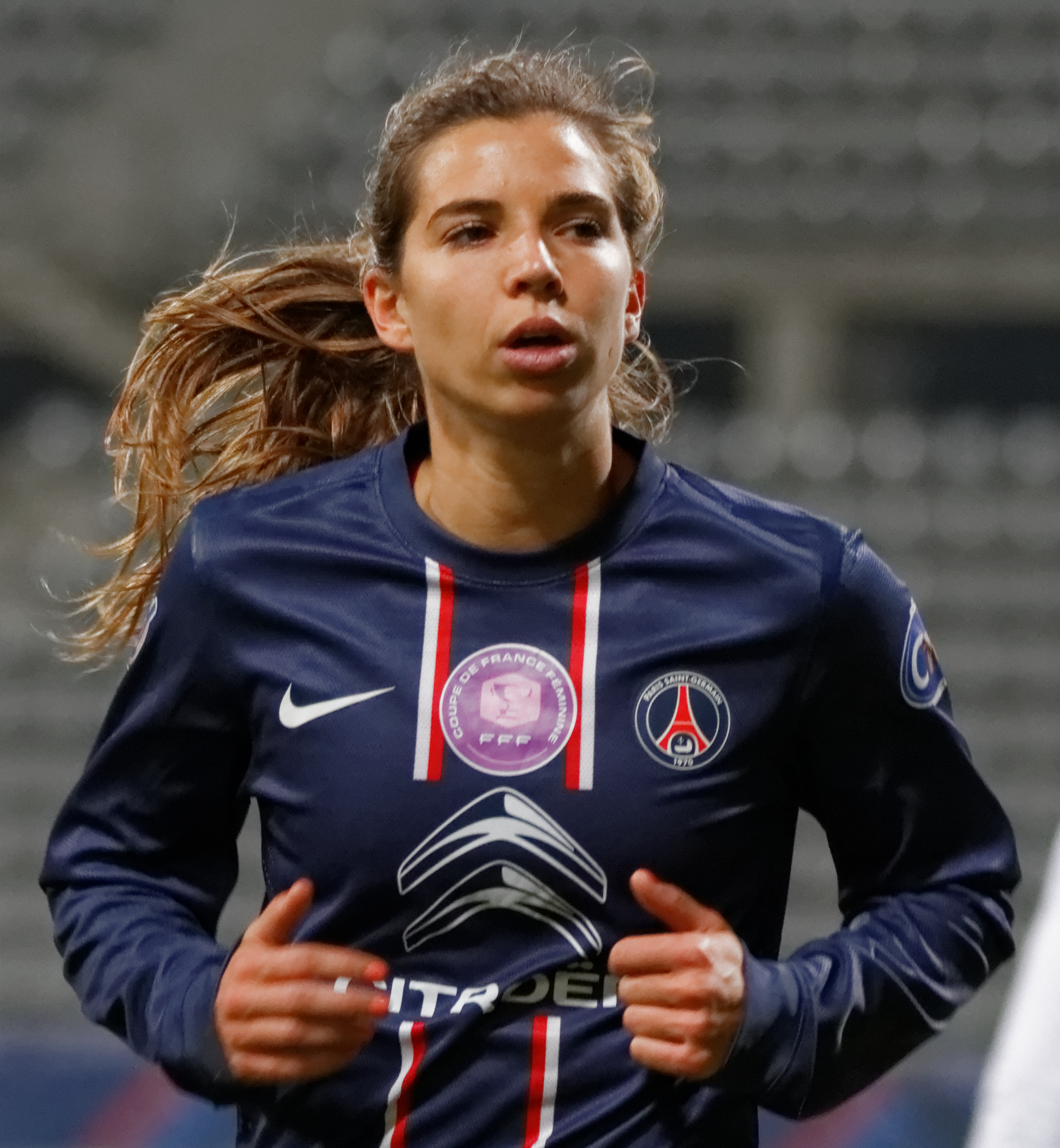 PSG-Juvisy, March 23th, 2013.